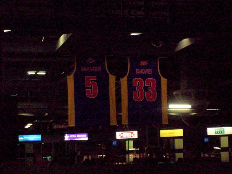 Adelaide 36ers retired numbers - #5 Brett Maher, #33 Mark Davis